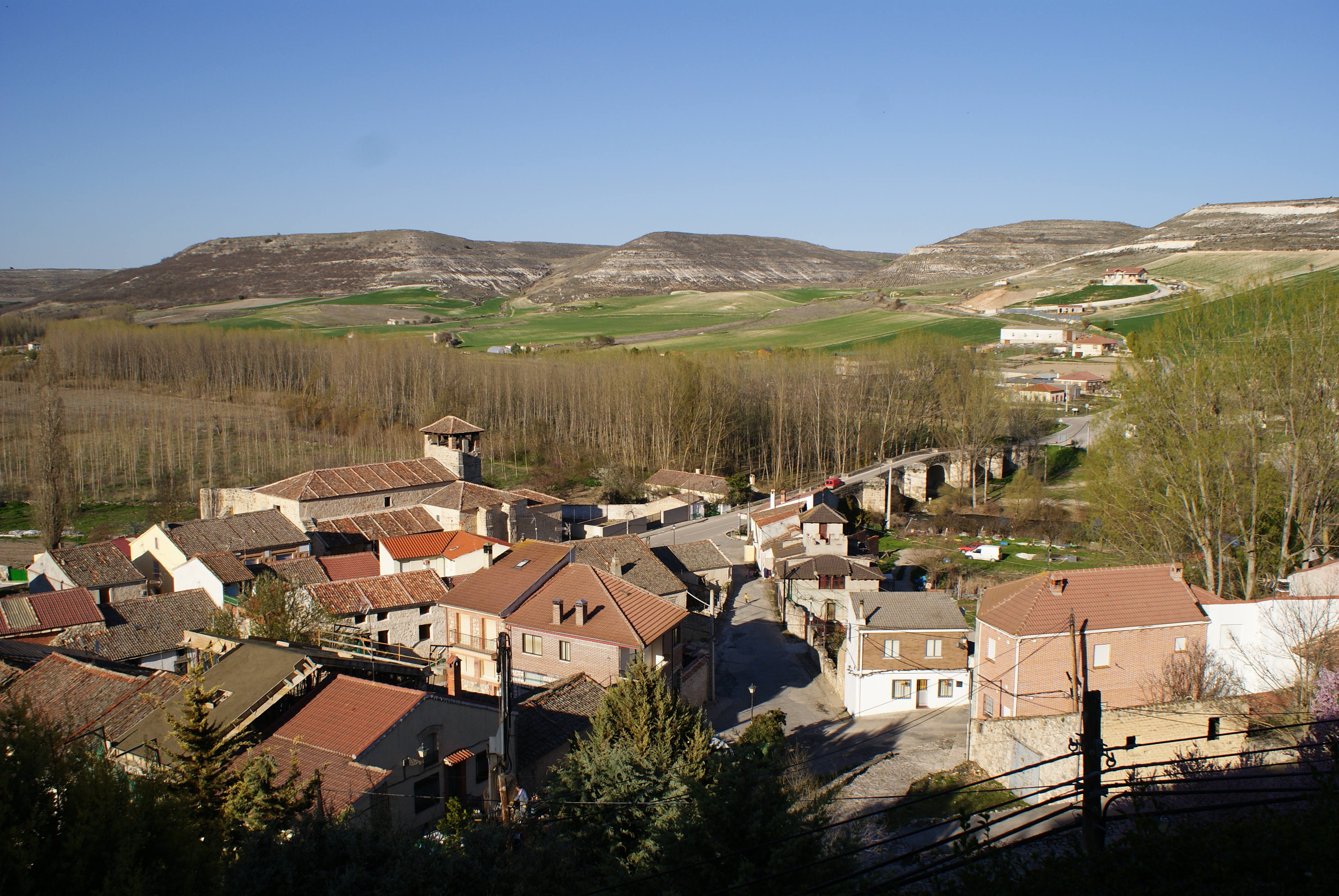 A partial view of Fuentidueña and outskirts, Segovia, Spain.